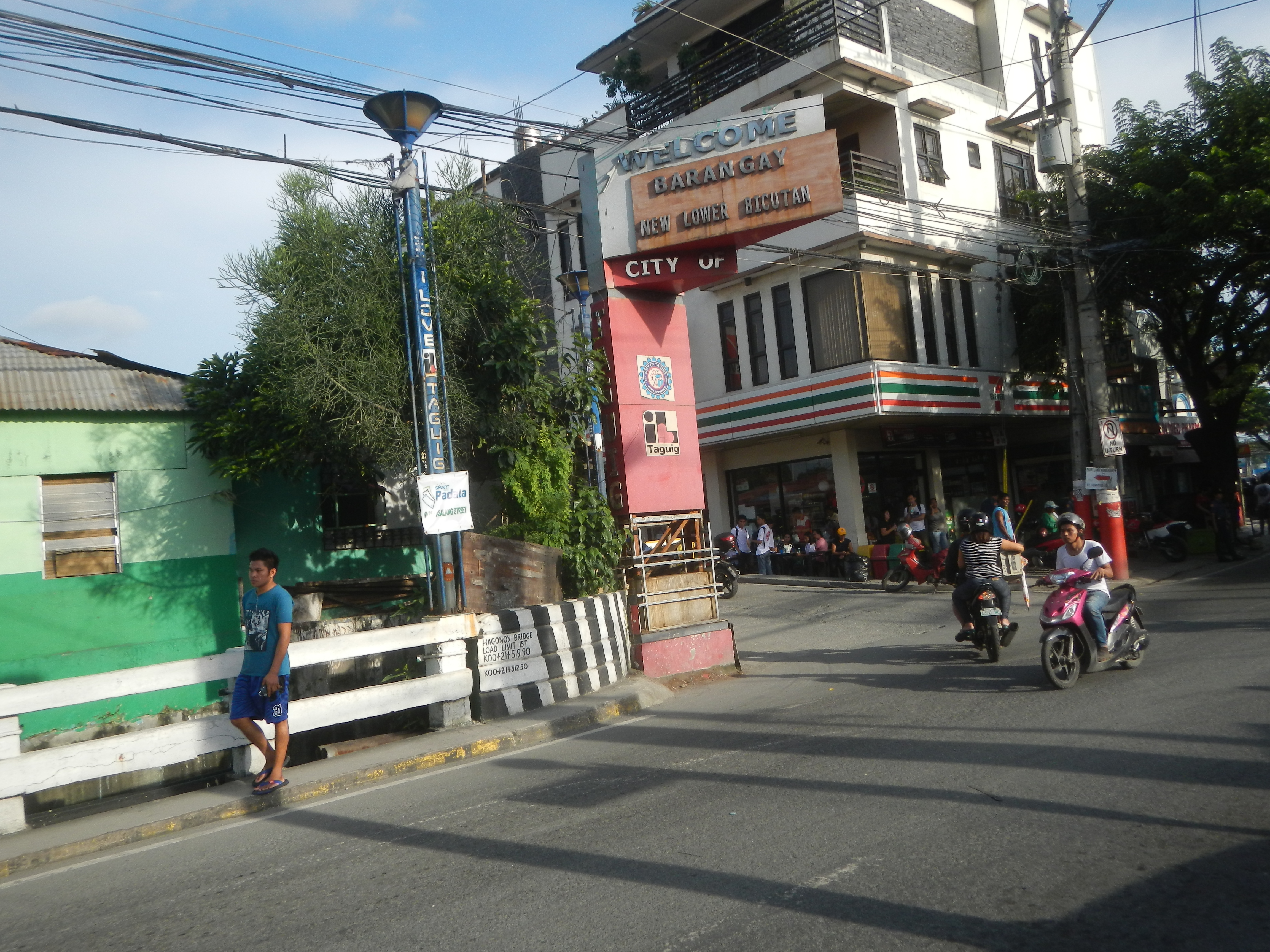 C-6 Road Hagonoy Pumping Station 14°30'25.62" 121°4'8.13" Hagonoy, Taguig Floodgates - Pumping Station Ciriaco P. Tinga Elementary School (Hagonoy, Taguig City) Hagonoy Bridge, Taguig City New Lower Bicutan Ultra Mega Supermarket (New Lower Bicutan, Taguig City) M. L. Quezon Street Saint Chamuel College (Tuktukan, Taguig City) San Bartolome Chapel (Tuktukan, Taguig City) Hagonoy, Taguig City San Miguel, Taguig City Taguig Science High School Taguig River Barangays San Miguel 14°31'3"N 121°4'7"E Hagonoy 14°30'26"N 121°4'9"E New Lower Bicutan Taguig City (Note: Judge Florentino Floro, the owner, to repeat, Donor Florentino Floro of all these photos hereby donate gratuitously, freely and unconditionally all these photos to and for Wikimedia Commons, exclusively, for public use of the public domain, and again without any condition whatsoever).